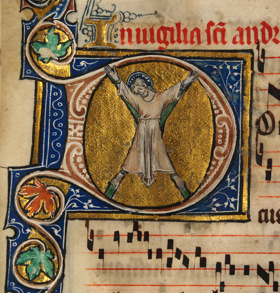 This beautiful Missal made from parchment originates from East Anglia. It is considered a very important manuscript as it is one of the earliest examples of a Missal of an English source. Sarum Missals were books produced by the Church during the Middle Ages for celebrating Mass throughout the year